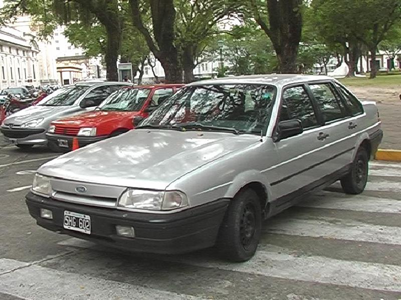 Ford Galaxy or Versailles (made by Volkswagen based on VW Santana).